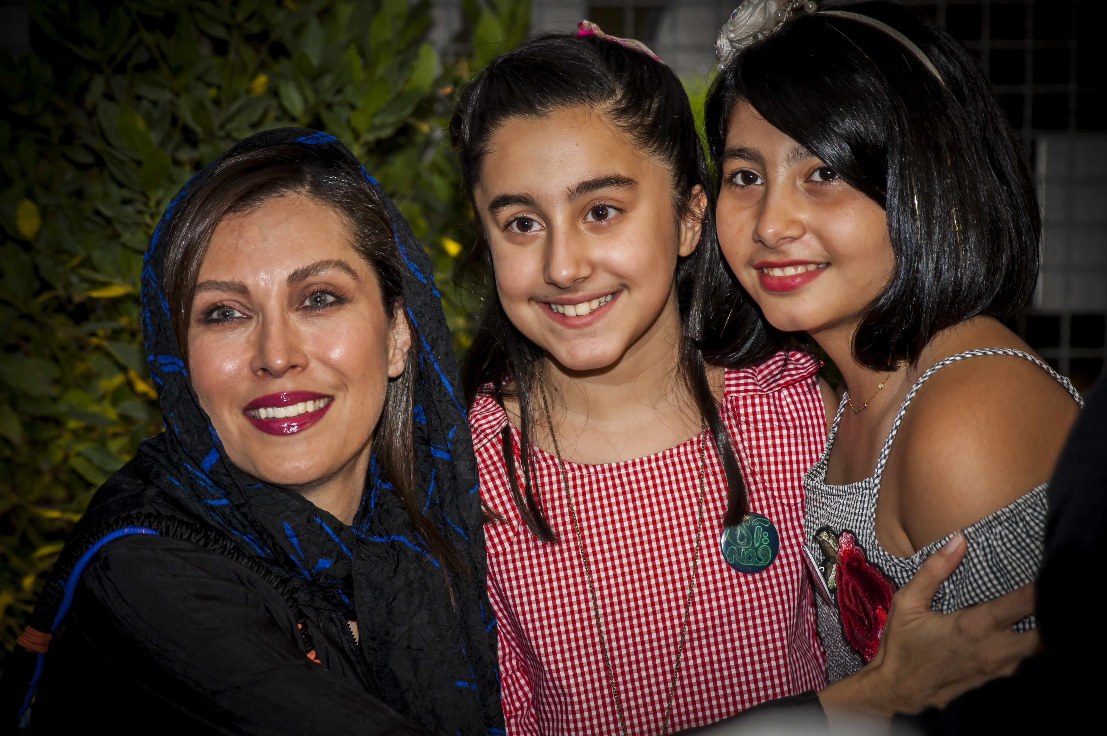 iGhe3, iGhese city - 2019